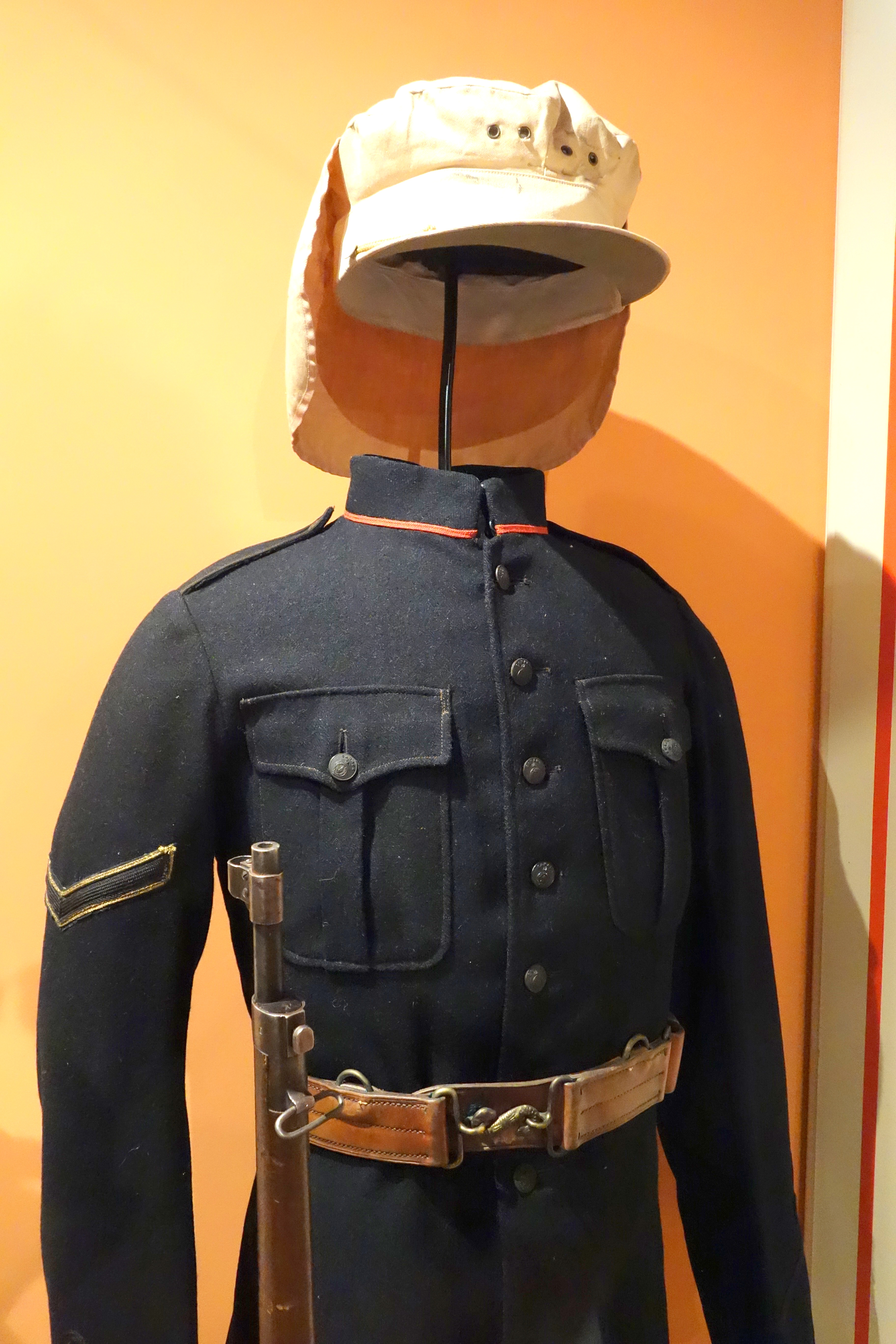 Exhibit in the Glenbow Museum, 130 9th Ave S.E., Calgary, Alberta, Canada. This government military uniform is in the public domain.